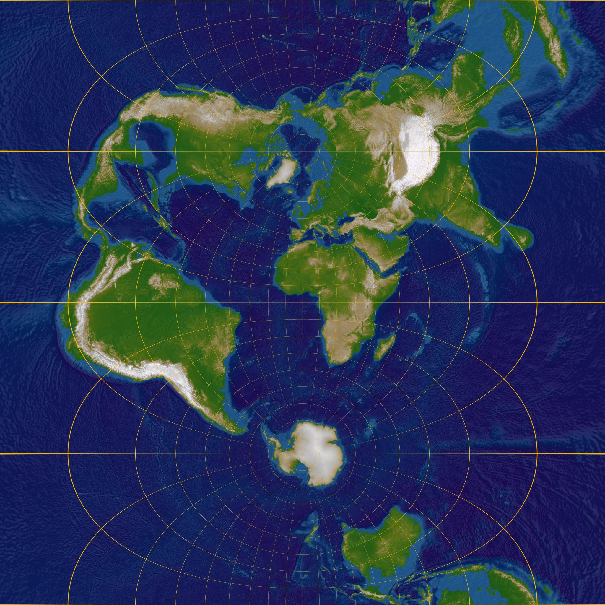 Transversal Mercator projection. Map center is at 0°E, 0°N. Left border is near 85°W, right border is near 85°E.